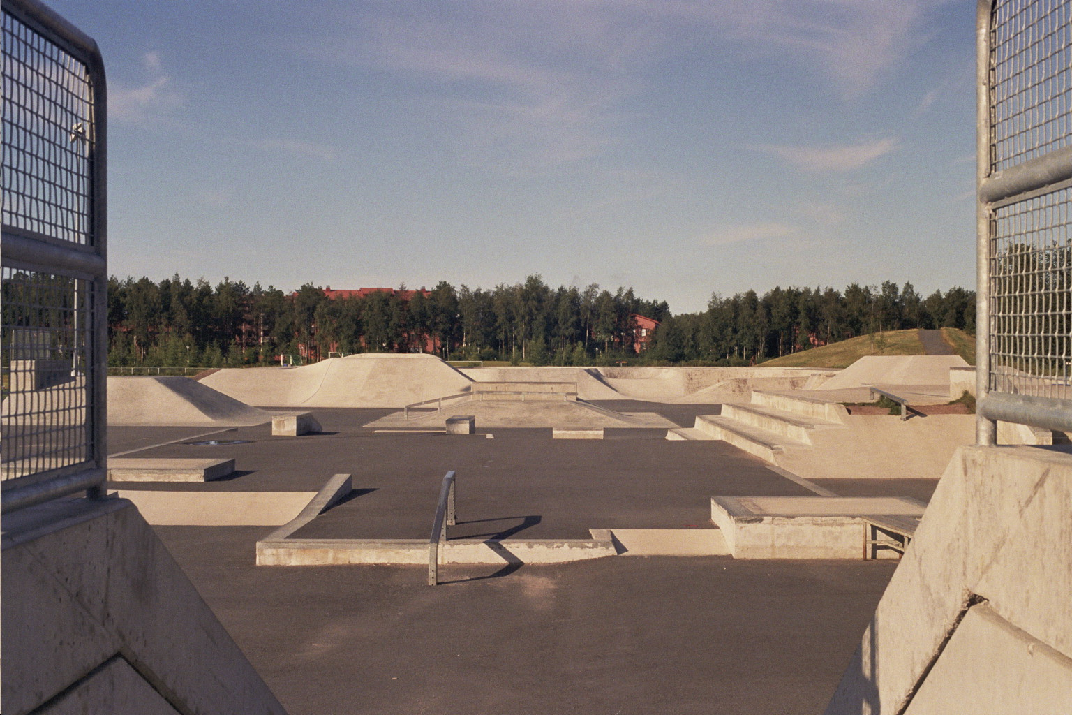 The Hovinsuo skatepark in the Hintta district of Oulu, Finland.